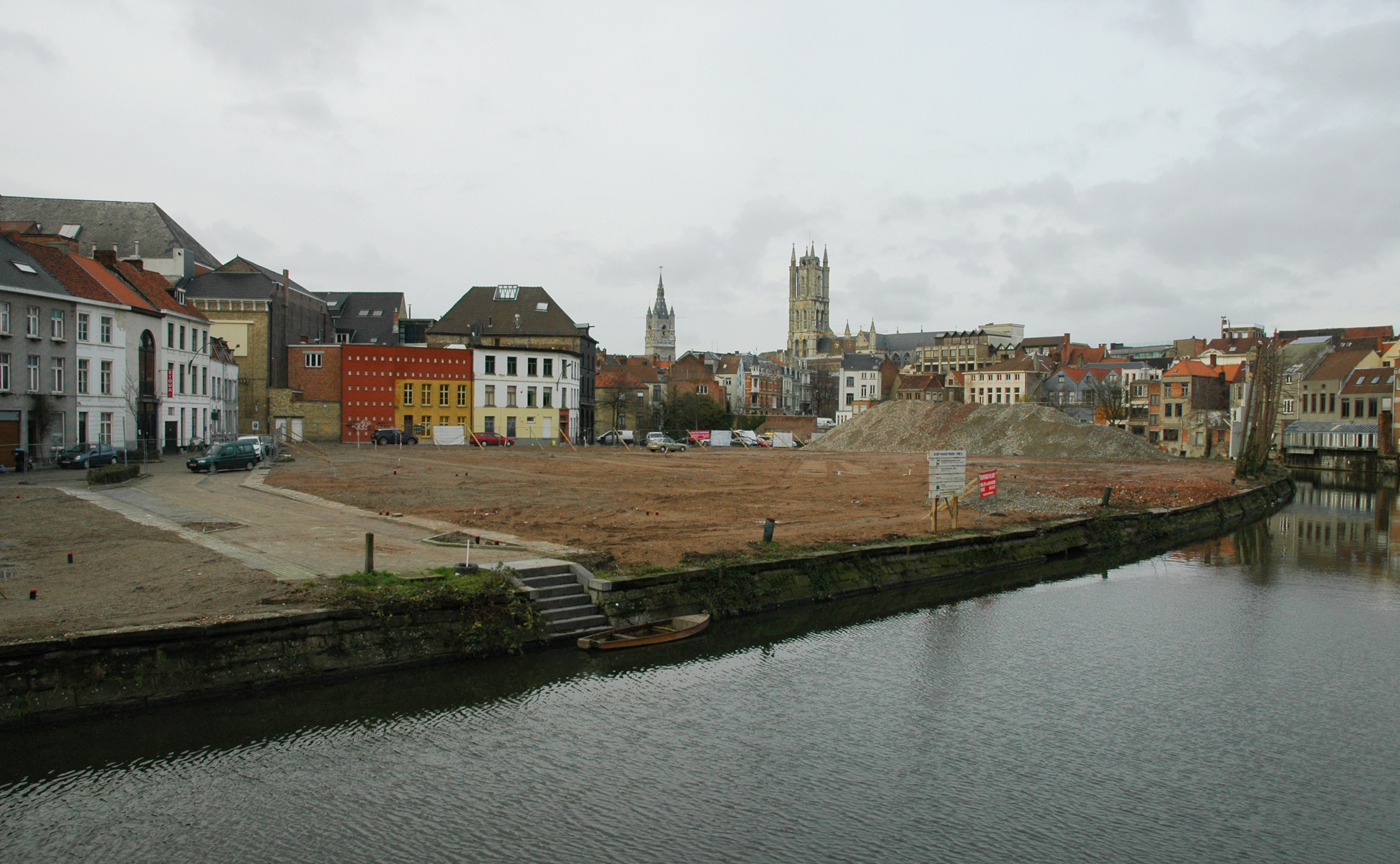 The Waalse Krook site in Ghent (Belgium) on December 20th, 2011. In the background: the towers of the Belfry of Ghent and the Saint Bavo Cathedral.